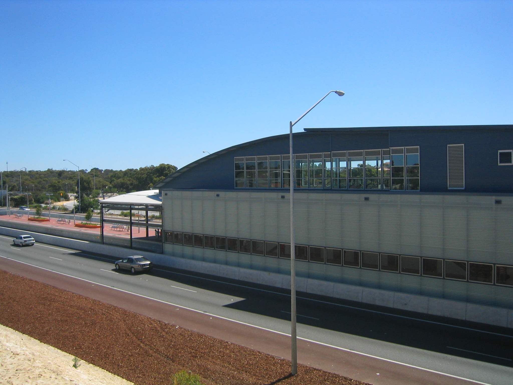 The station building of Murdoch Station, taken from Kwinana Freeway southbound.